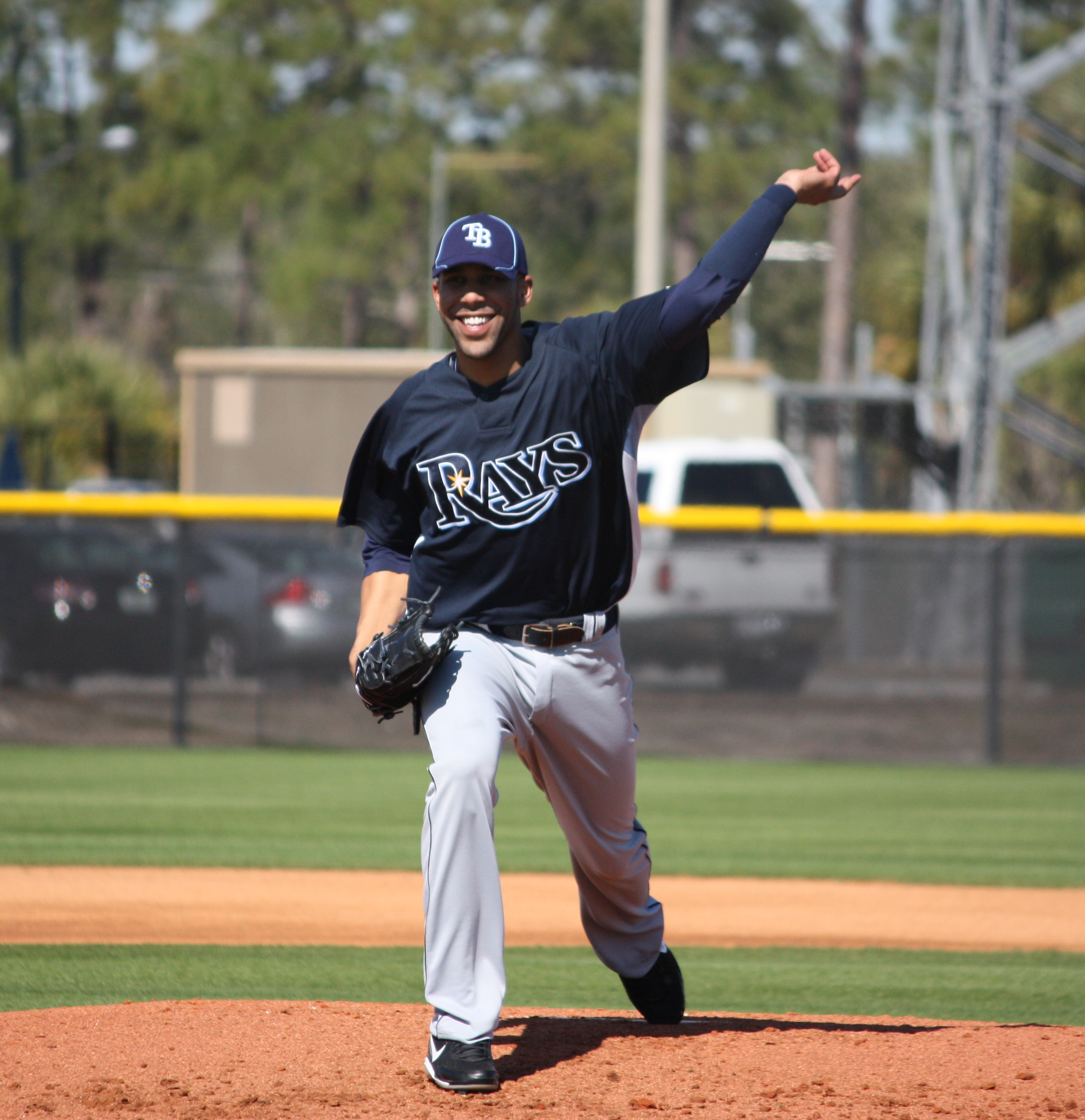 David Price of the Tampa Bay Rays doing first base drills during spring training workouts at Charlotte Sports Park in Port Charlotte on February 21, 2010.